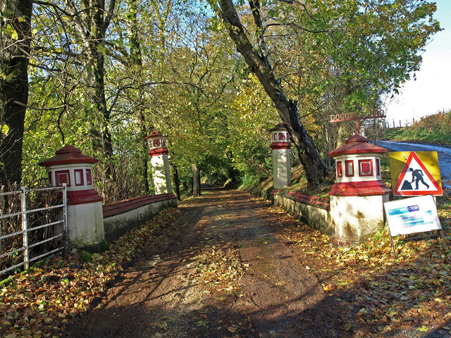 Driveway The entrance to Doggartland House near Drakemyre.